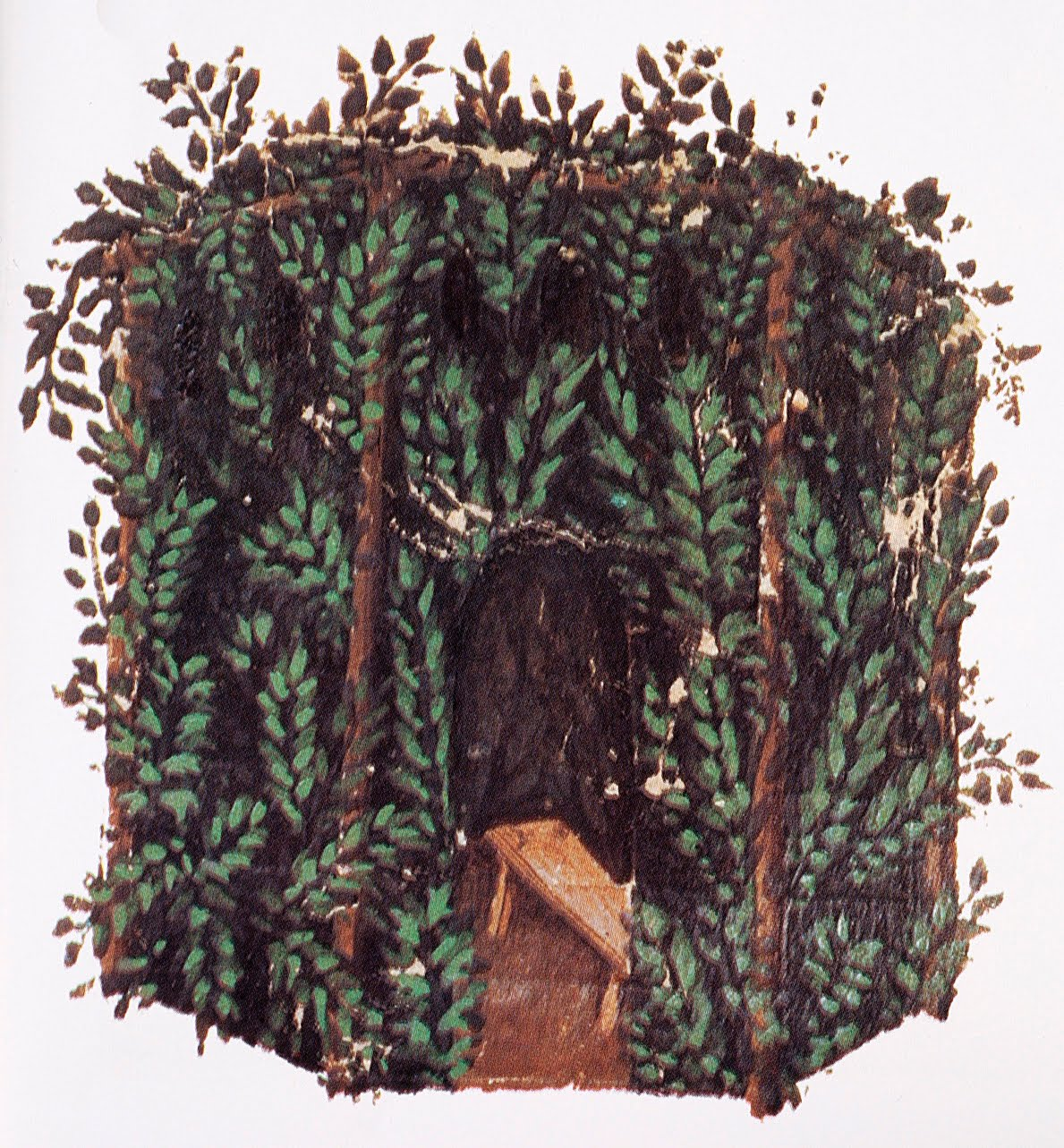 Manuscript Illustration of a Sukkah (Italy, 1374). British Libriary MS Or 5024 fol 70v from Metzger, Jewish Life in the Middle Ages, fig. 369.